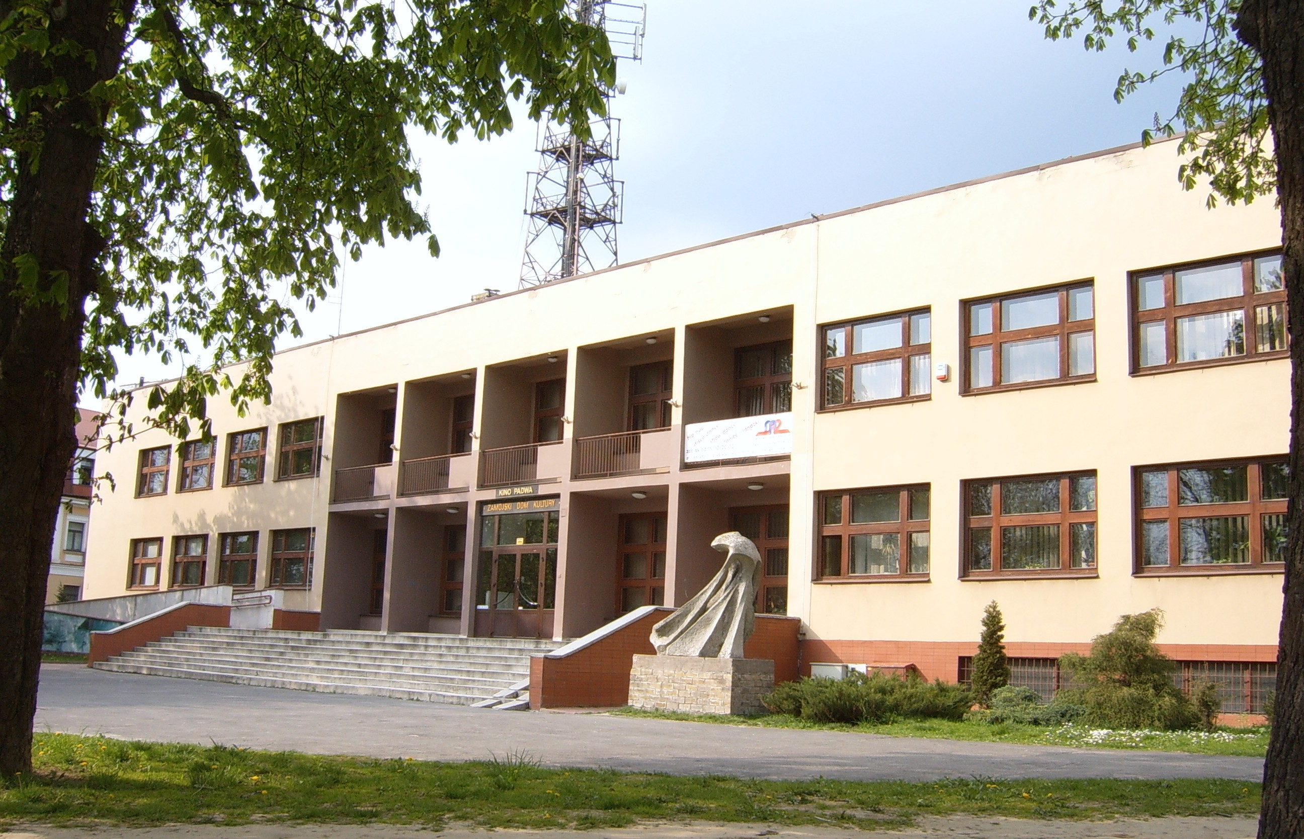 Zamość, culture center